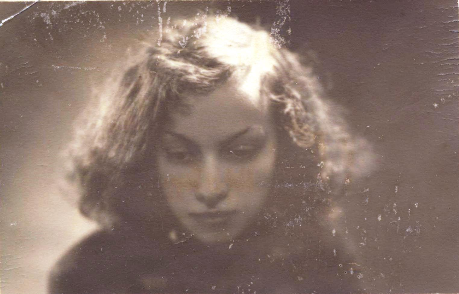 Bulgarian writer Yana Yazova